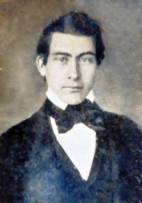 Leander Cox, US Representative from Kentucky